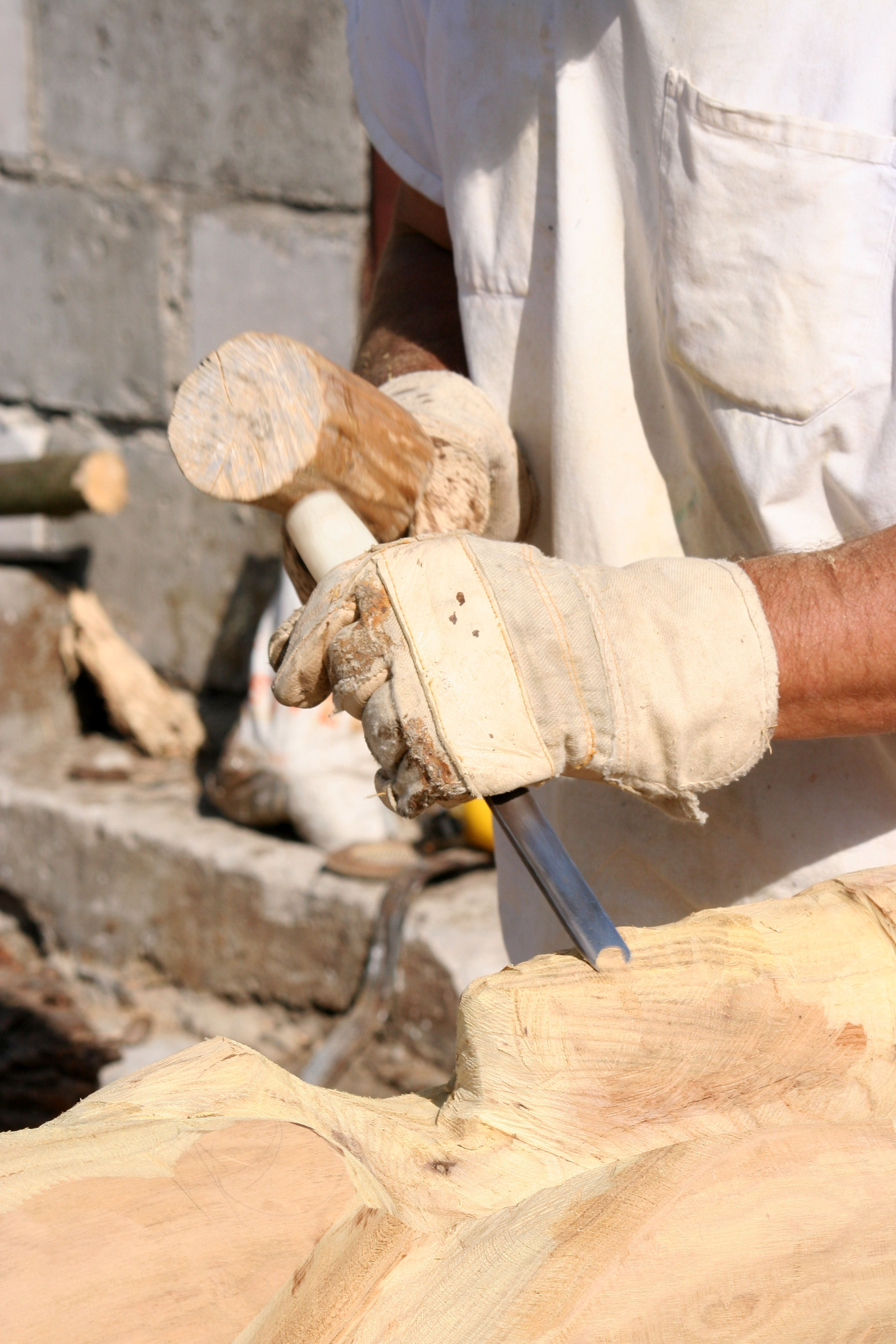 Hands of an artist sculptor working on his work.